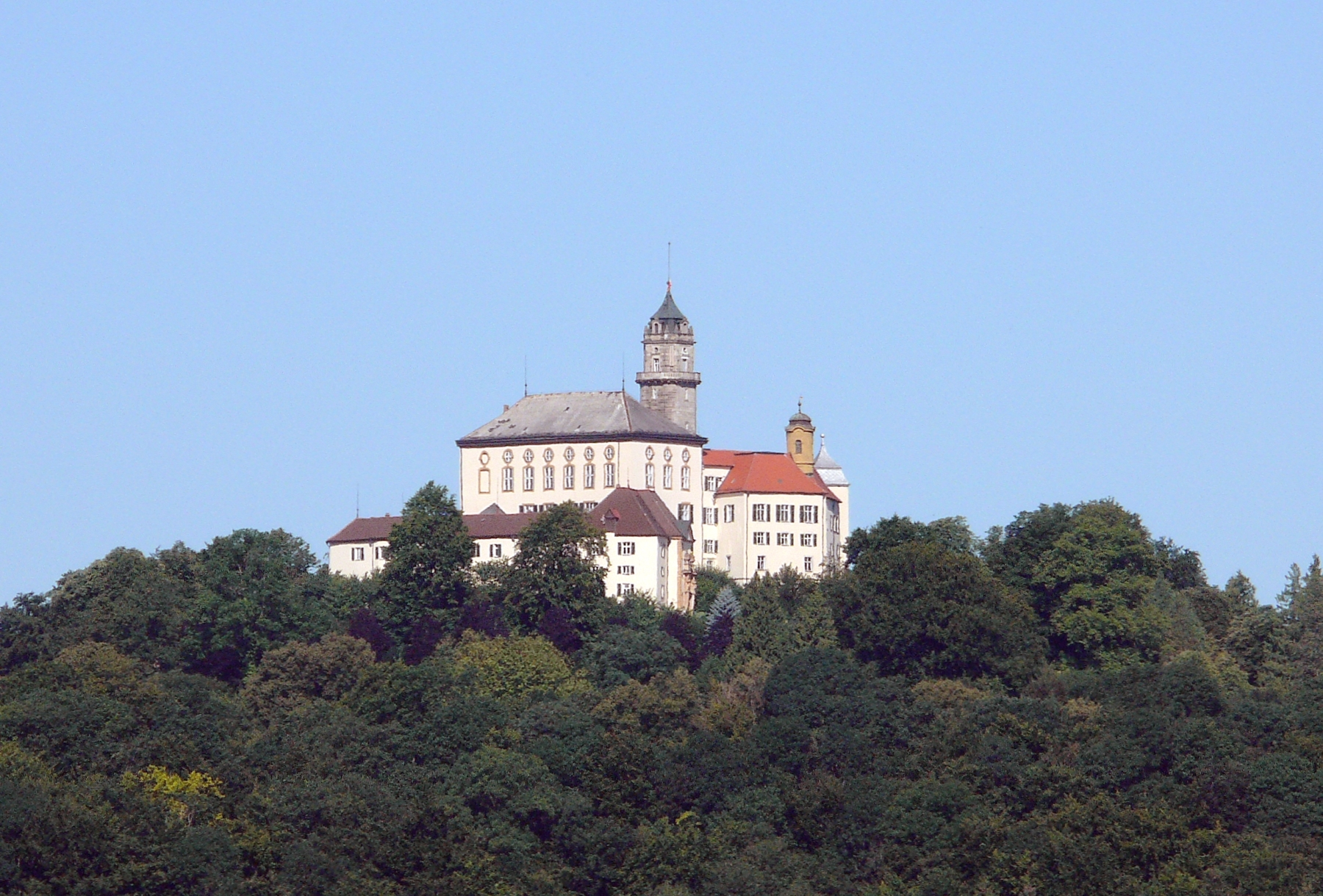 Castle of Baldern near Bopfingen, Germany